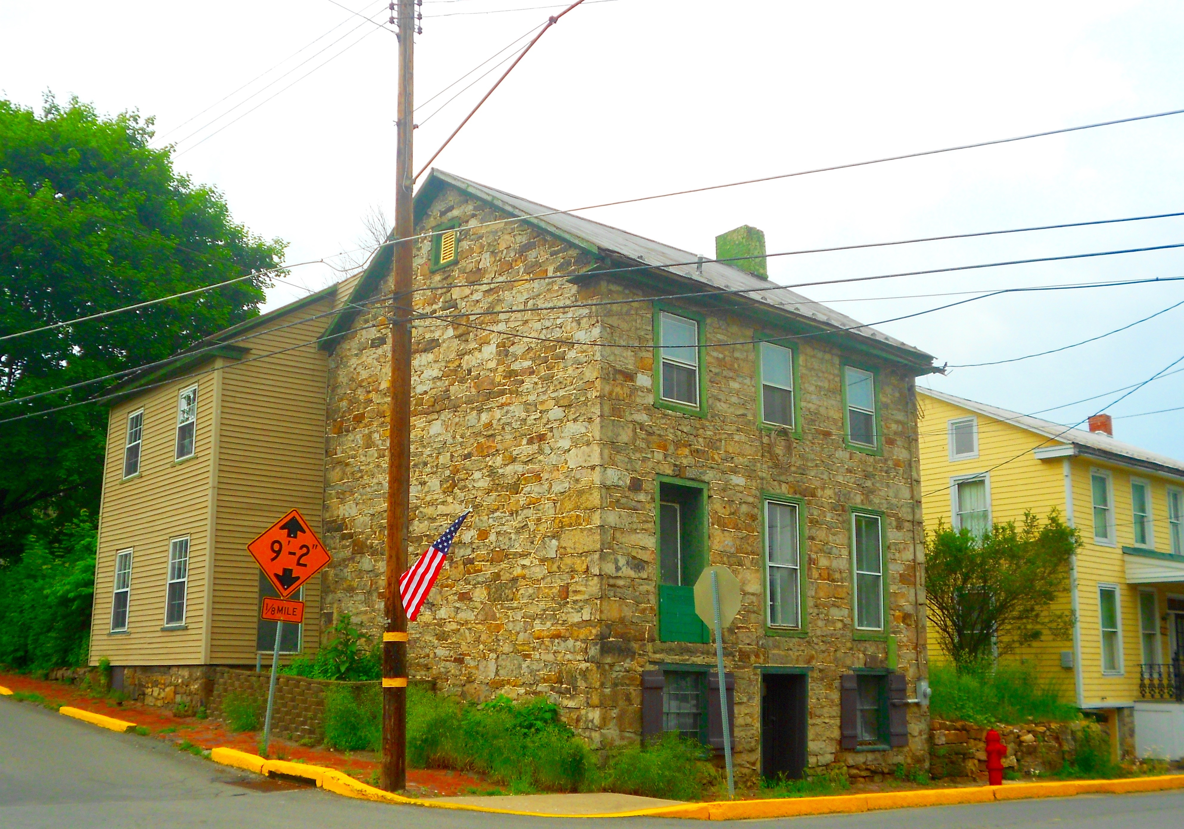 Stone house on Water Street (near the Juniata River) in the borough of Newton Hamilton, Mifflin County, Pennsylvania